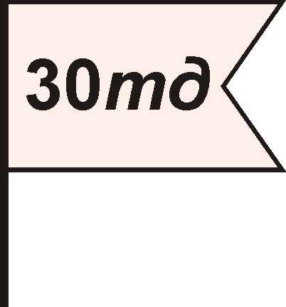 Іконка - прапор 30-ї гвардійської танкової дивізії 8-ї танкової армії ЗС СРСР